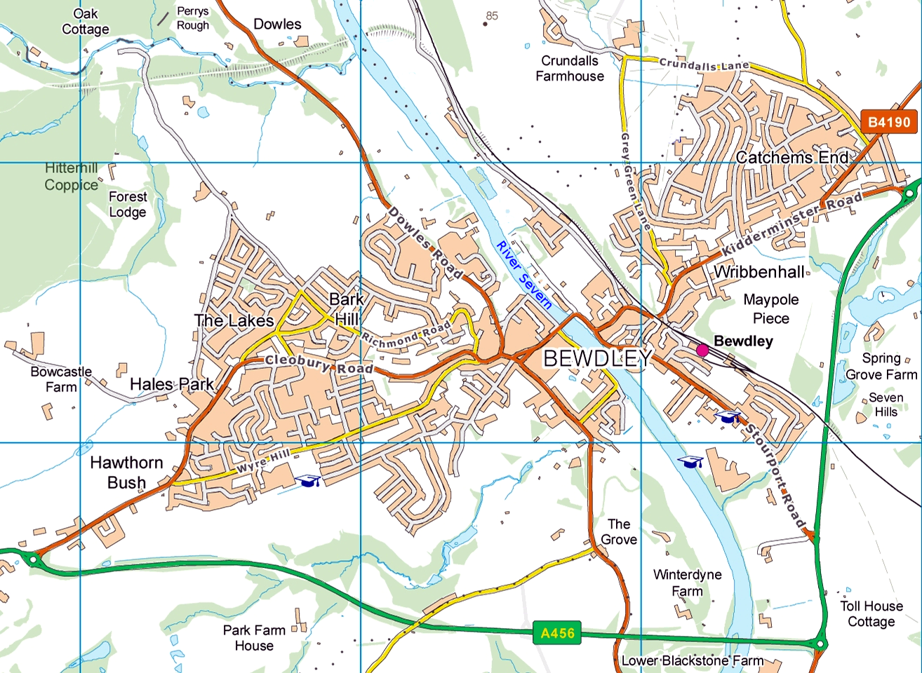 Map of Bewdley and surrounding area from Ordnance Survey VectorMap District (raster) mapping. One grid square = 1 square kilometre.